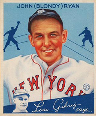 1934 Goudey baseball card of John "Blondy" Ryan of the New York Giants #32. PD-not-renewed.